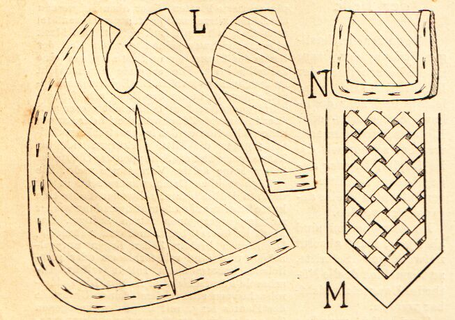 Ermine clothing, working examples